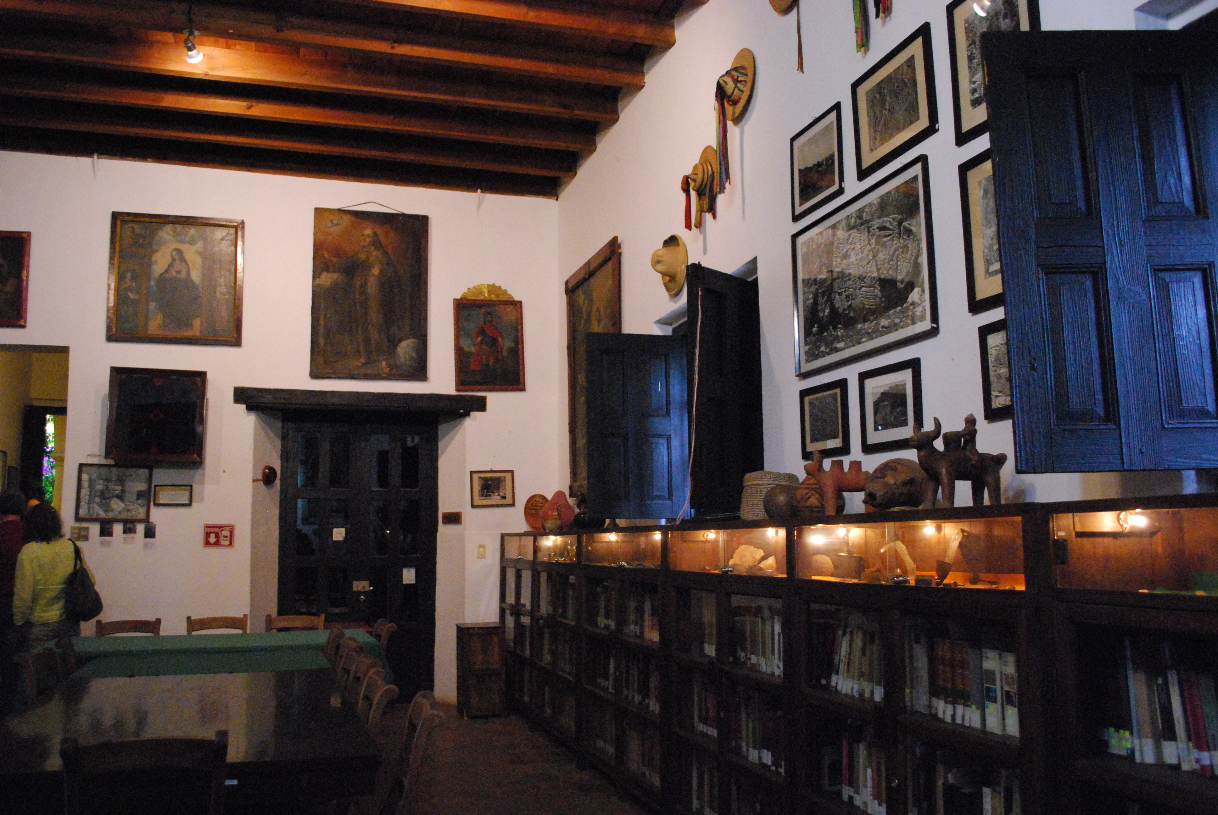 View of the library of Casa Na Bolom in San Cristobal de las Casas, Chiapas, Mexico